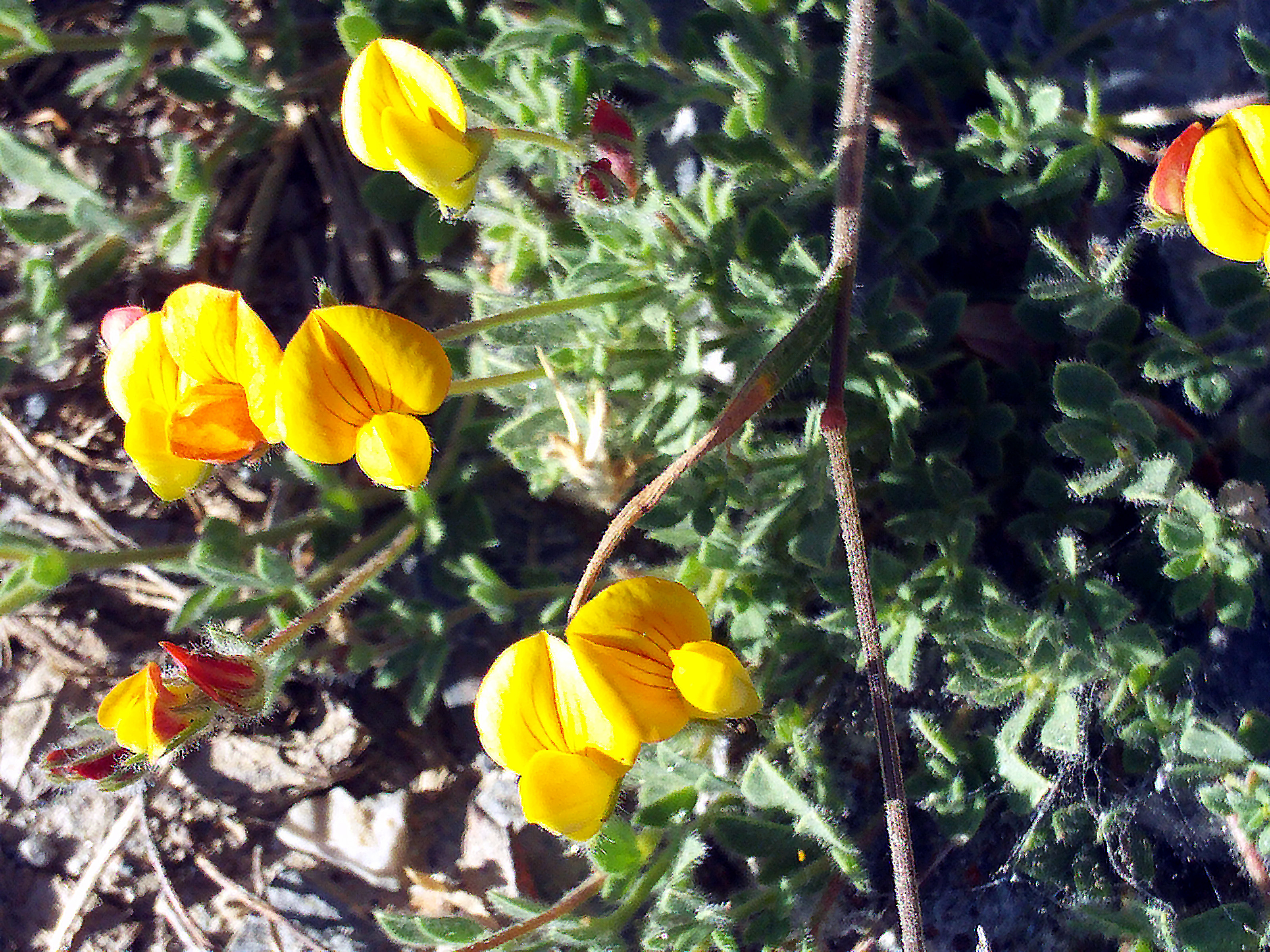 Lotus_glareosus_FlowersCloseup, endemic of Sierra Nevada, Spain